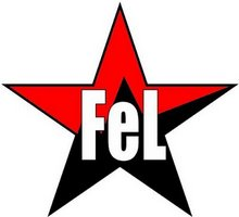 logo of student's organization Frente de Estudiantes Libertarios from Chile